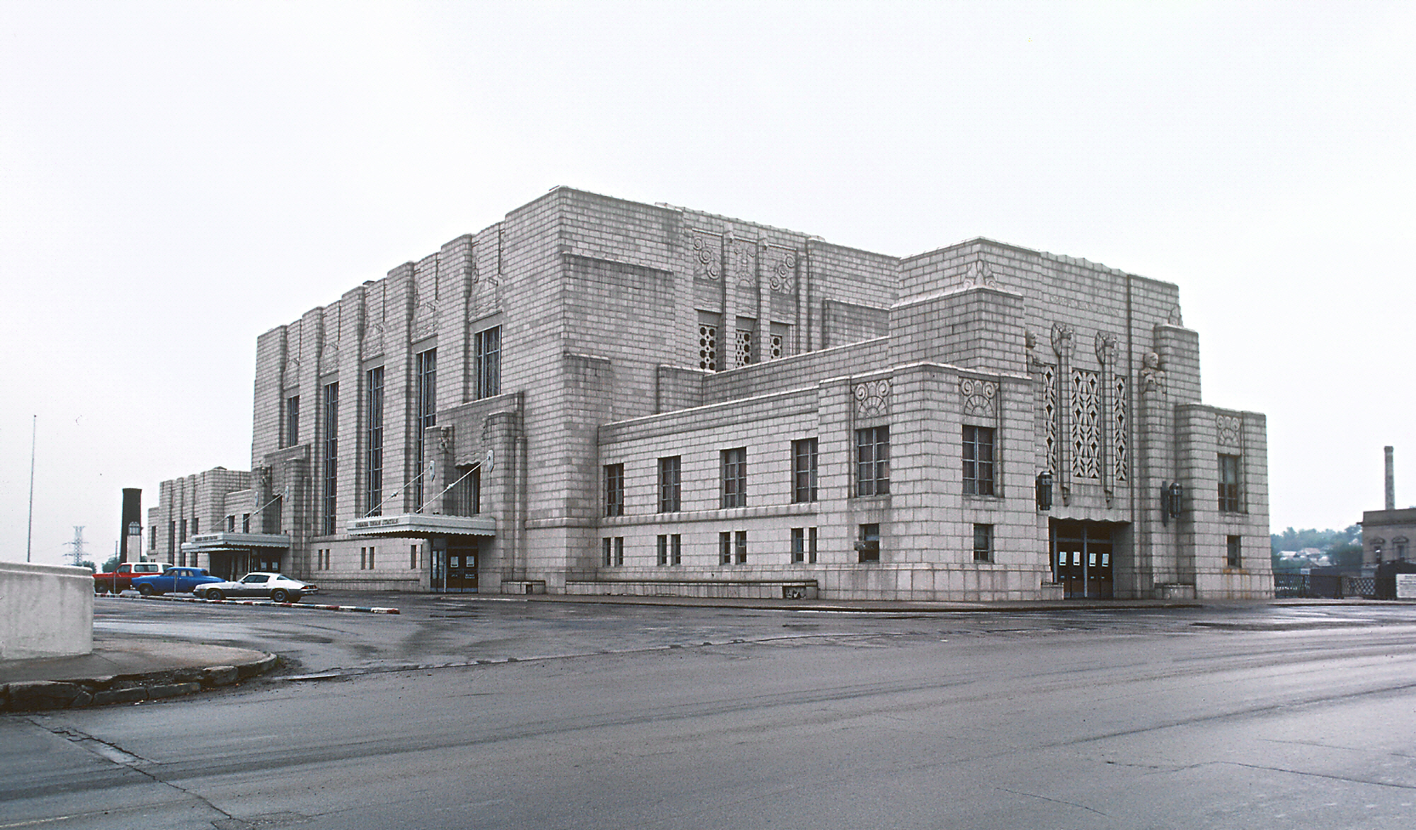 The Omaha Union Station was one of many depots and other buildings designed by famed architect, Gilbert Stanley Underwood. A Roger Puta Photograph